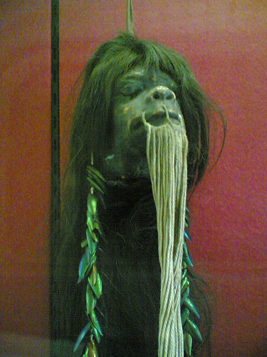 Shrunken head. Photo taken in the Science Museum, London, in 2005. Exhibit no longer on display.